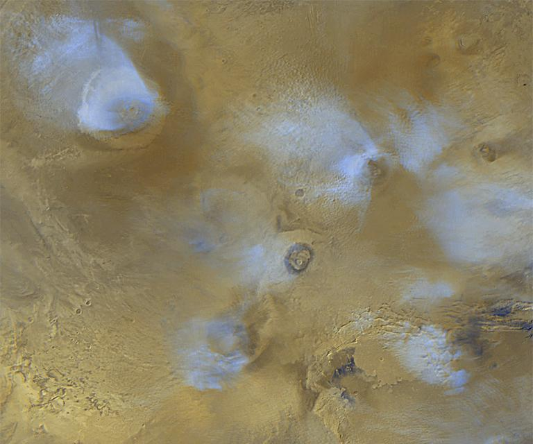 Uploaded from wikipedia. Original caption is/was here. Original Caption Released with Image: The volcanoes of the Tharsis region are highlighted by this color image mosaic obtained on a single martian afternoon by the Mars Orbiter Camera (MOC) onboard the Mars Global Surveyor (MGS) spacecraft. Olympus Mons dominates the upper left corner -- it is one of the largest known volcanoes and is nearly 550 km (340 miles) wide. The grayscale image on the right shows the name of each volcano in the scene. The white or bluish-white features are clouds. Clouds are common over the larger Tharsis volcanoes in mid-afternoon. The four largest volcanoes are more than 15 km (9 mi) high. Viewed from Earth by telescope before any spacecraft had visited the planet, astronomers often described a "W"-shaped white cloud over the Tharsis region. This "W" was actually the result of seeing the combined effects of bright clouds hanging over the Ascraeus, Pavonis, Arsia, and Olympus volcanoes. The clouds result when warm air containing water vapor rises up the slopes of each volcano, cools at the higher altitude, and causes the water vapor to freeze and form a cloud of ice crystals. Pavonis Mons lies on the martian equator, north is up, and sunlight is illuminating the scene from the left. The picture is a mosaic of red and blue filter images taken on three consecutive orbits. The slightly blurred appearance of the left side of Arsia Mons results from distortion toward the edges of the images used to make the mosaic. To remove the blur, an image obtained on another day would be added to the mosaic--however, this image would not match well because the cloud patterns will have changed by the next day. Mosaics such as the one shown here are used to monitor changes in martian weather and to plan future observations. JPL Image Policy Credit line: "Courtesy NASA/JPL-Caltech."